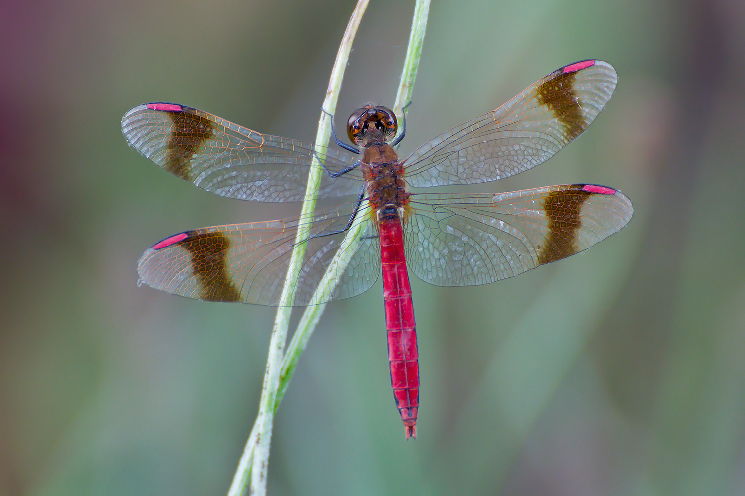 Male Banded Darter, Sympetrum pedemontanum.